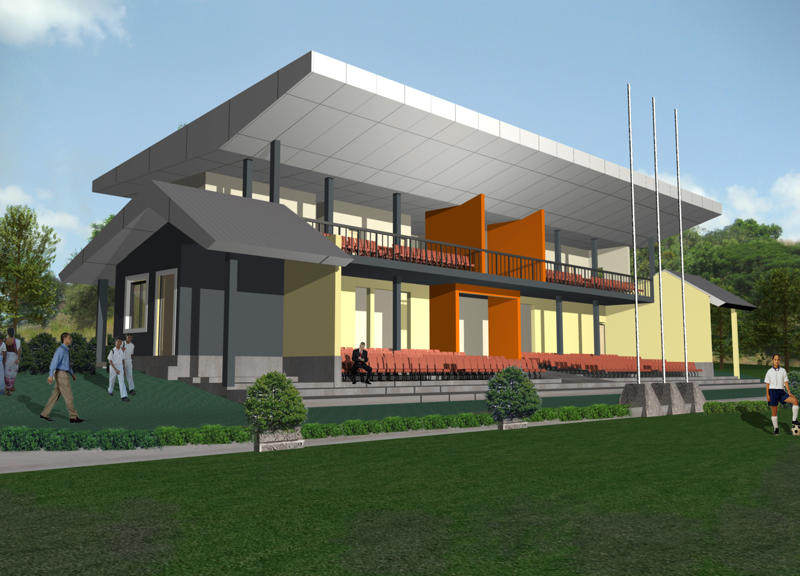 This is the Expected New Pavilion of Veyangoda Bandaranaike Central College.